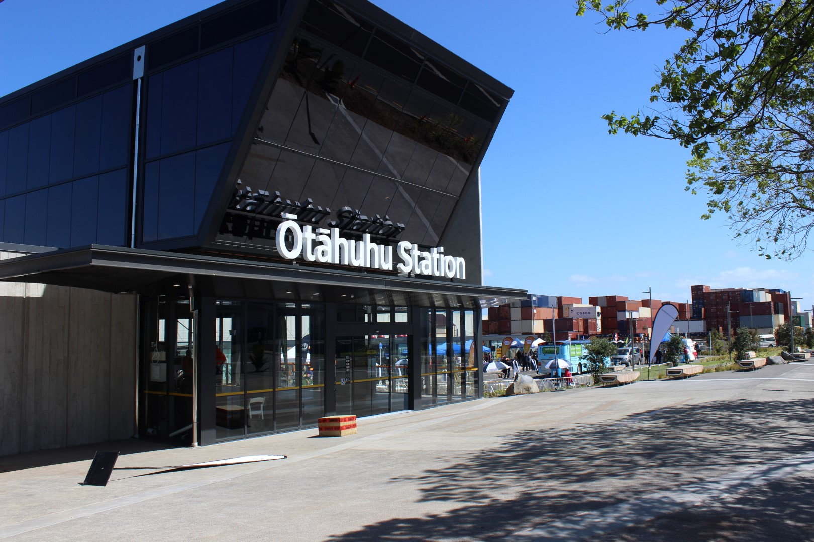 The entrance of the Otahuhu transport interchange from Walmsley Road, during an open day on 29 October 2016